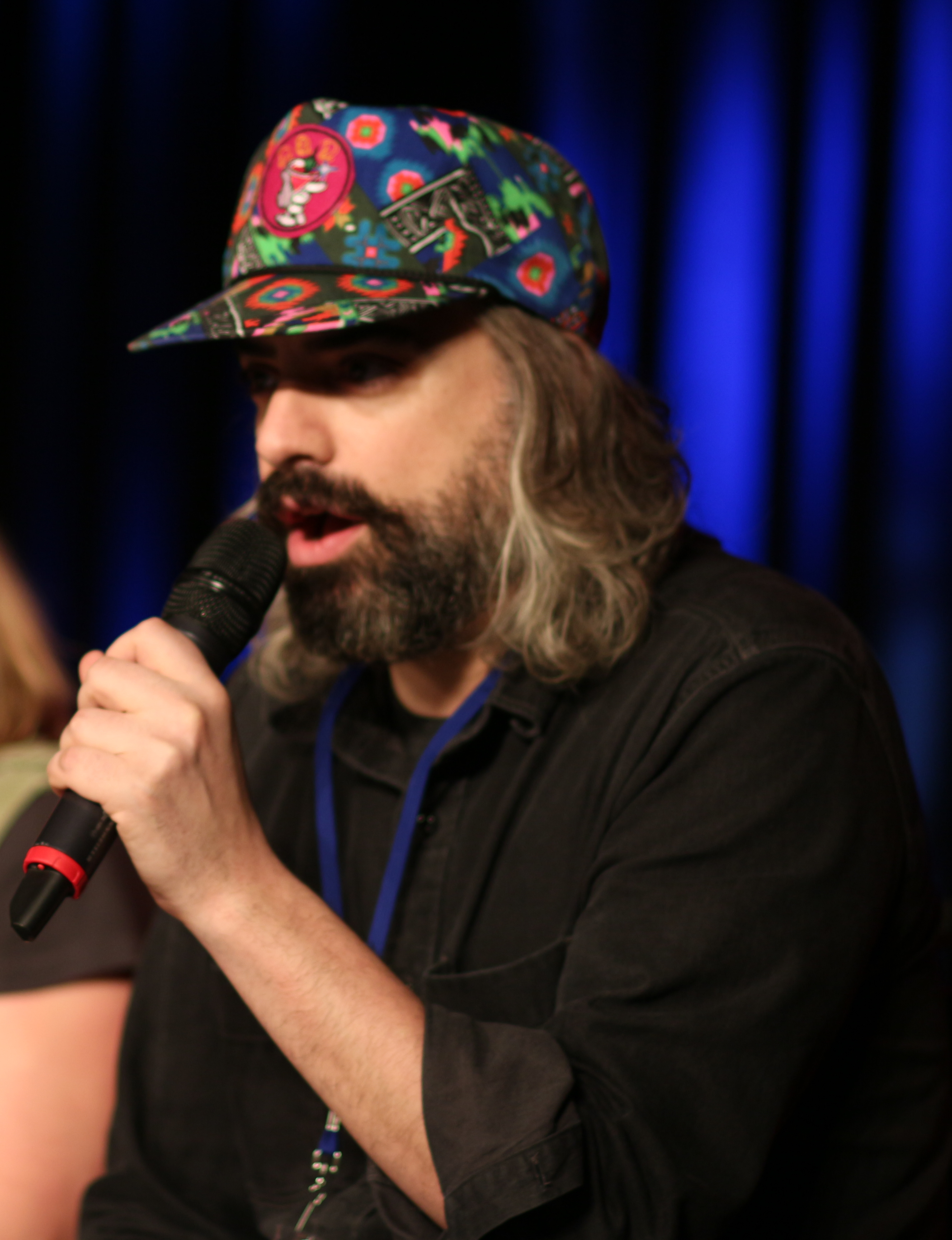 Melissa Warrenburg and Christy Karacas at Magic City Comic Con 2015